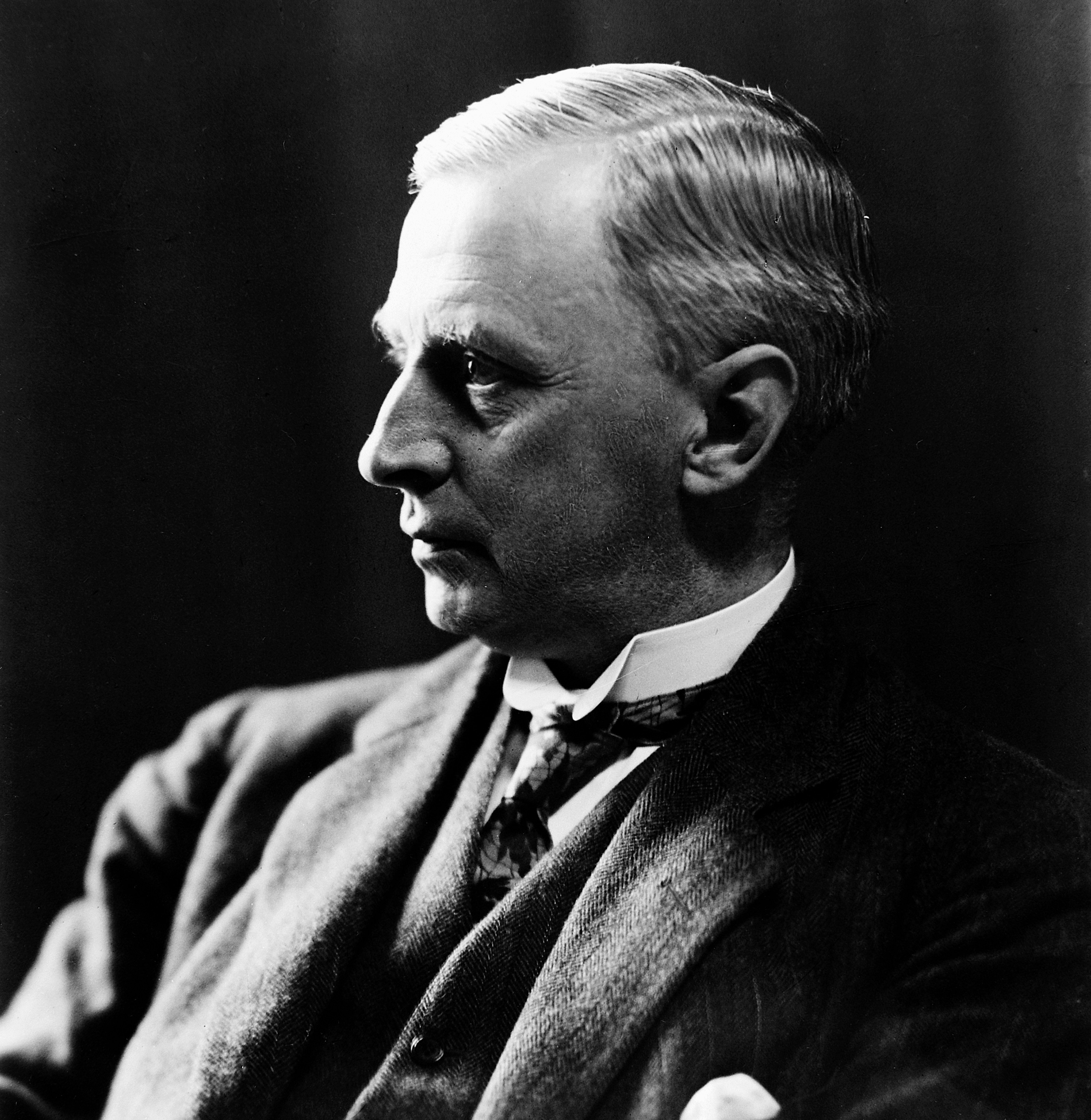 William Hope Fowler. Photograph by Drummond Young. Iconographic Collections Keywords: William Hope Fowler